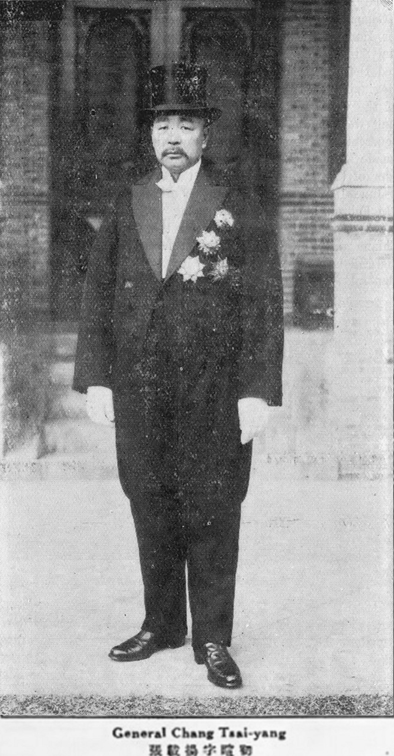 Zhang Zaiyang (1873-1945)